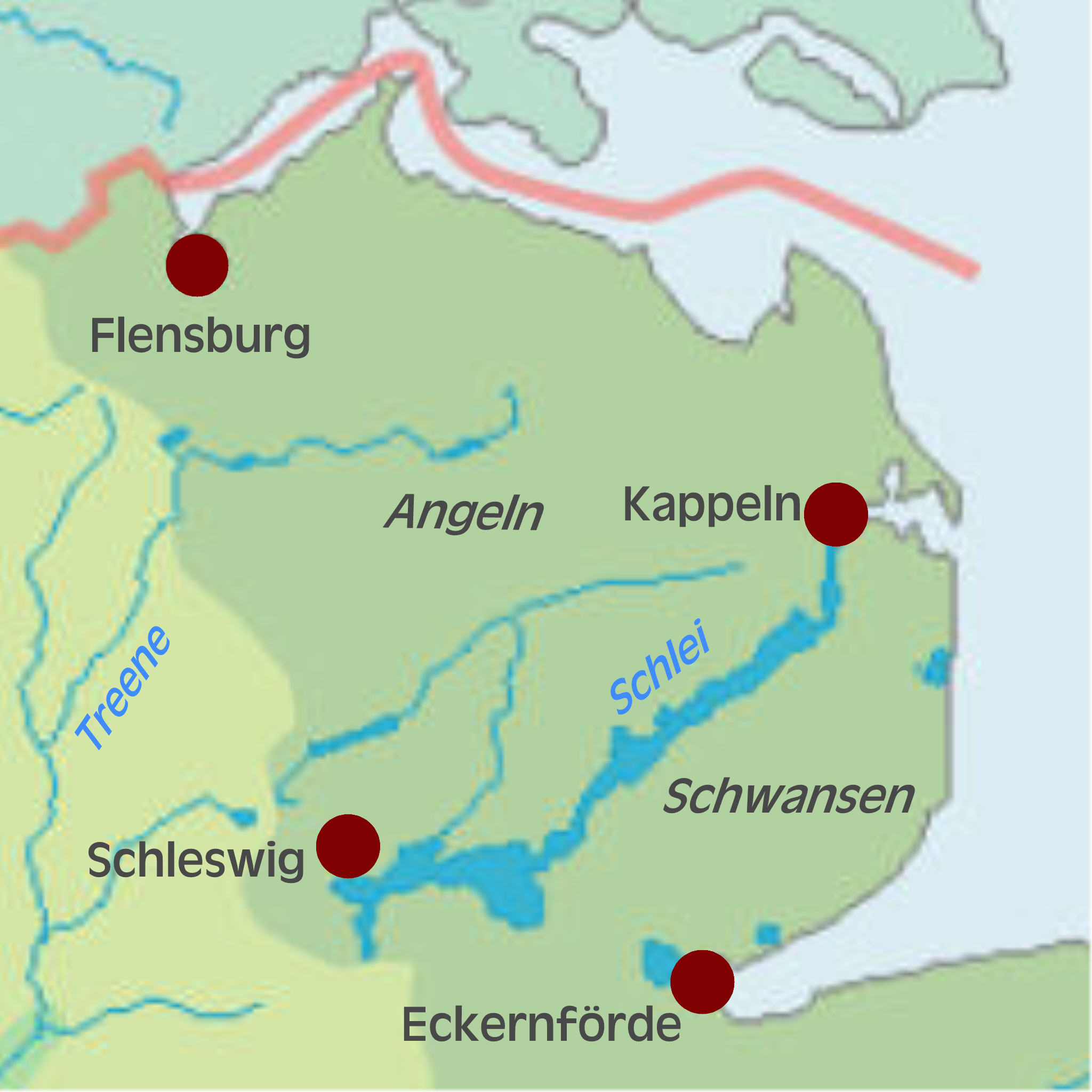 Angeln peninsula